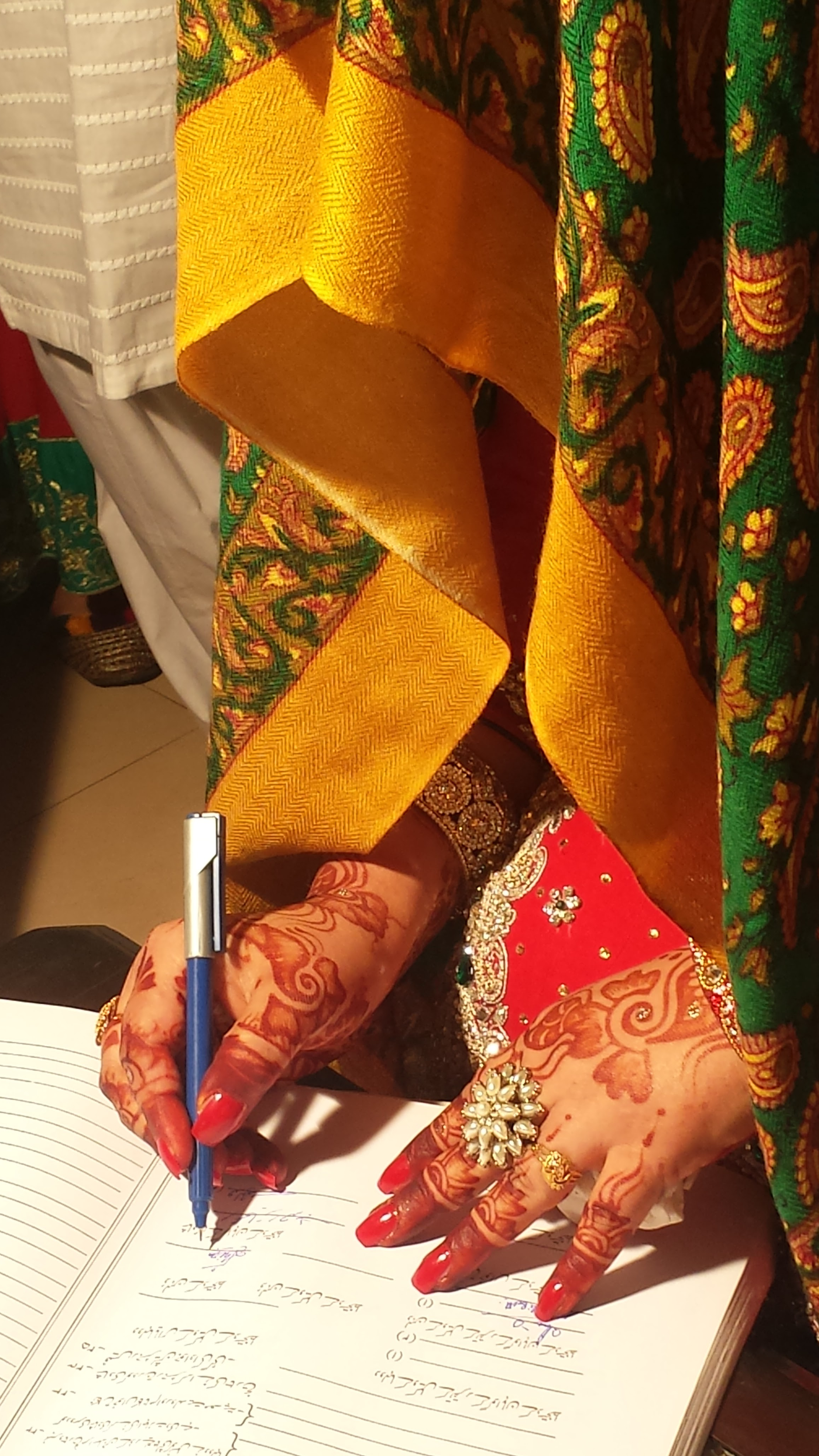 A bride signing marriage certificate called Nikkah Nama in Urdu